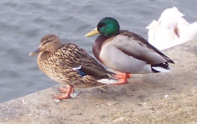 en: The pair of ducks. pl: Para kaczek. Author : Krzyszttof Blachnicki